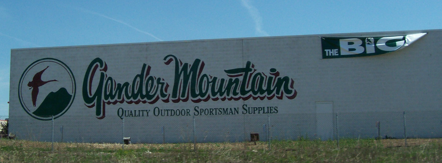 Looking east at the Gander Mountain store in Appleton, Wisconsin, USA, along U.S. Route 41.